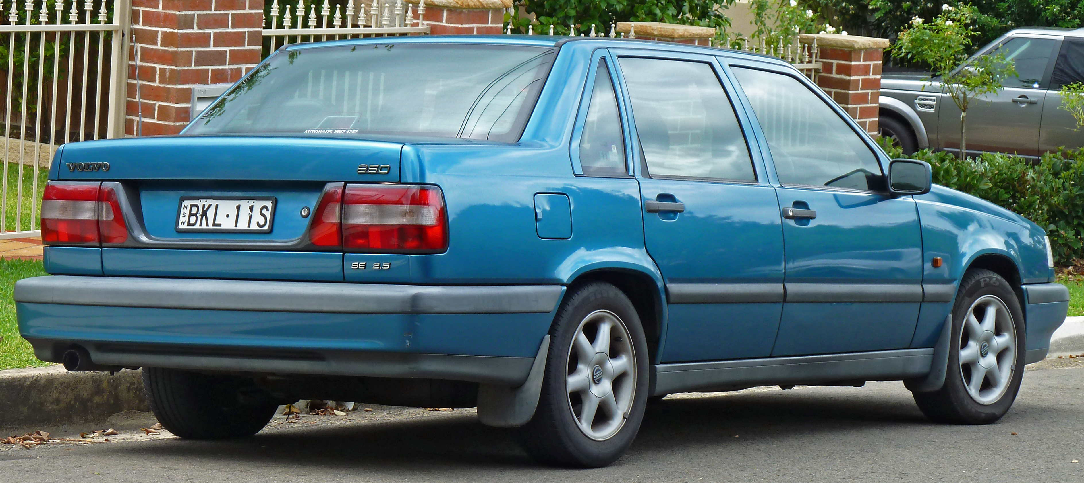 1994–1997 Volvo 850 SE 2.5 sedan. Photographed in Killara, New South Wales, Australia.